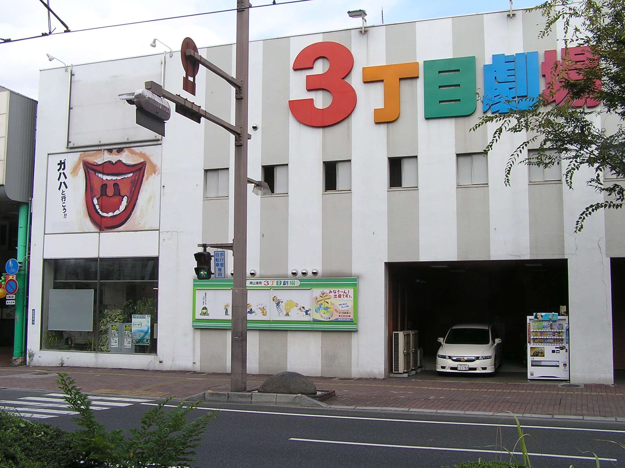 3 chome theater,Okayama